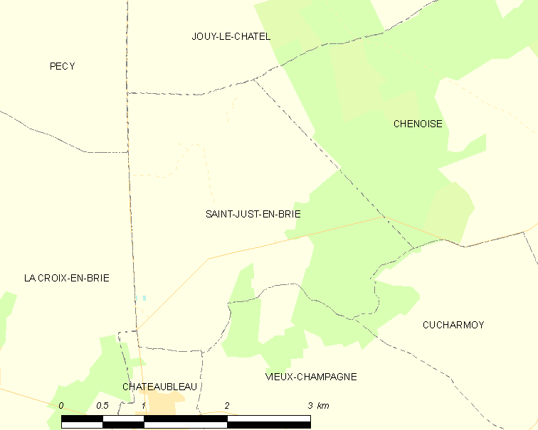 Map of French municipality Saint-Just-en-Brie